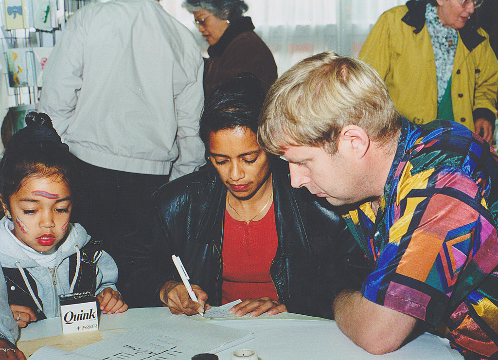 Black woman teaching calligraphy in Holland